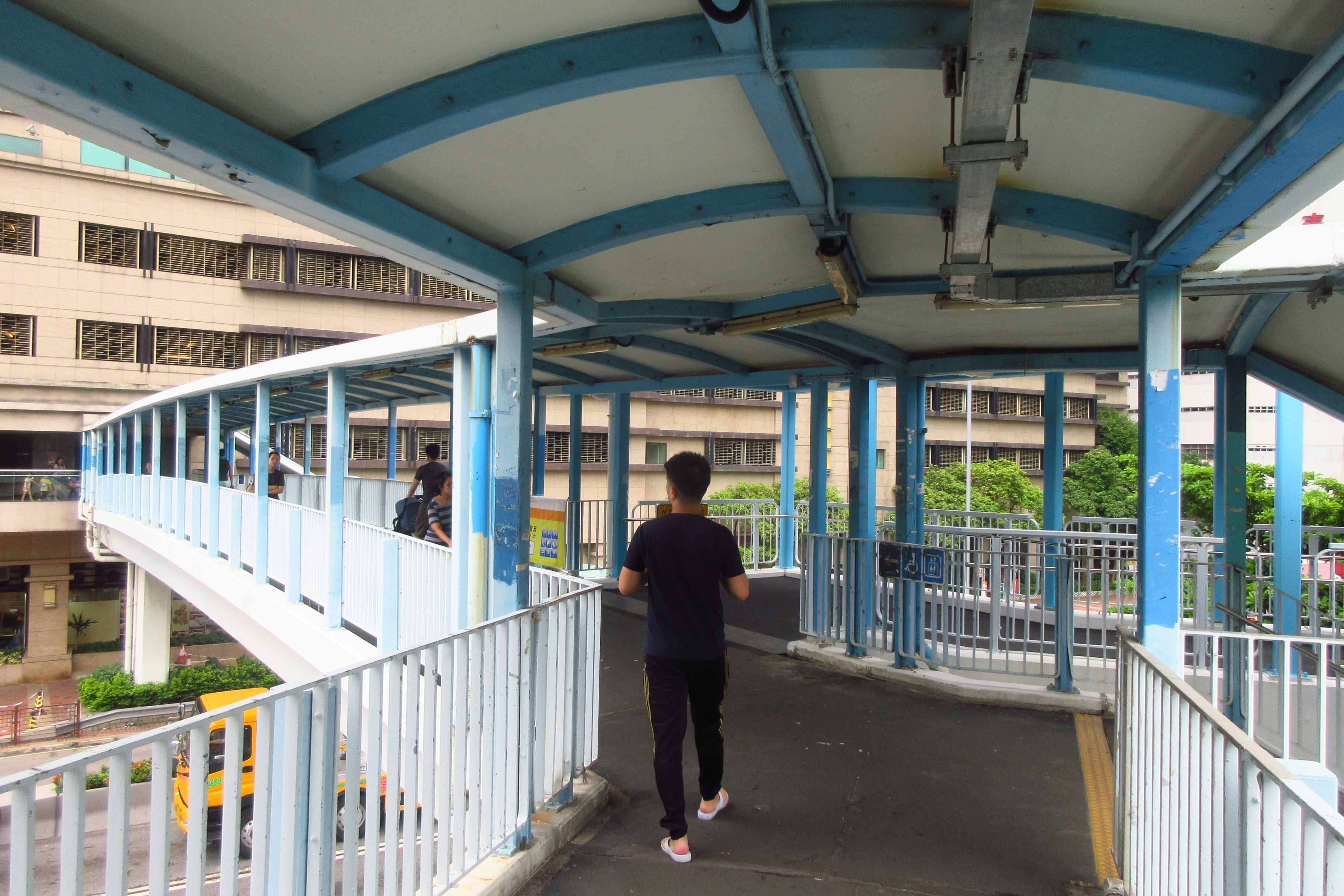 HK 荃灣 Tsuen Wan 楊屋道 Yeung Uk Road footbridge view in July 2018